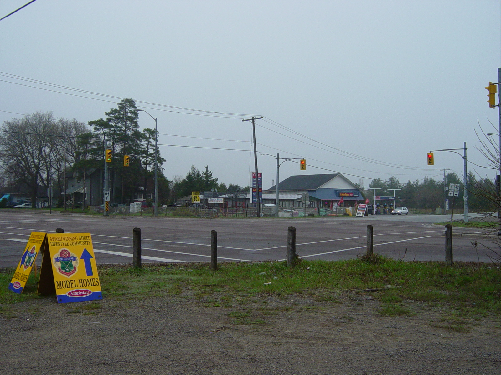 The corner of Aurora Road and Highway 48 in Whitchurch-Stouffville. Summary The corner of Aurora Road and Highway 48 in Whitchurch-Stouffville.